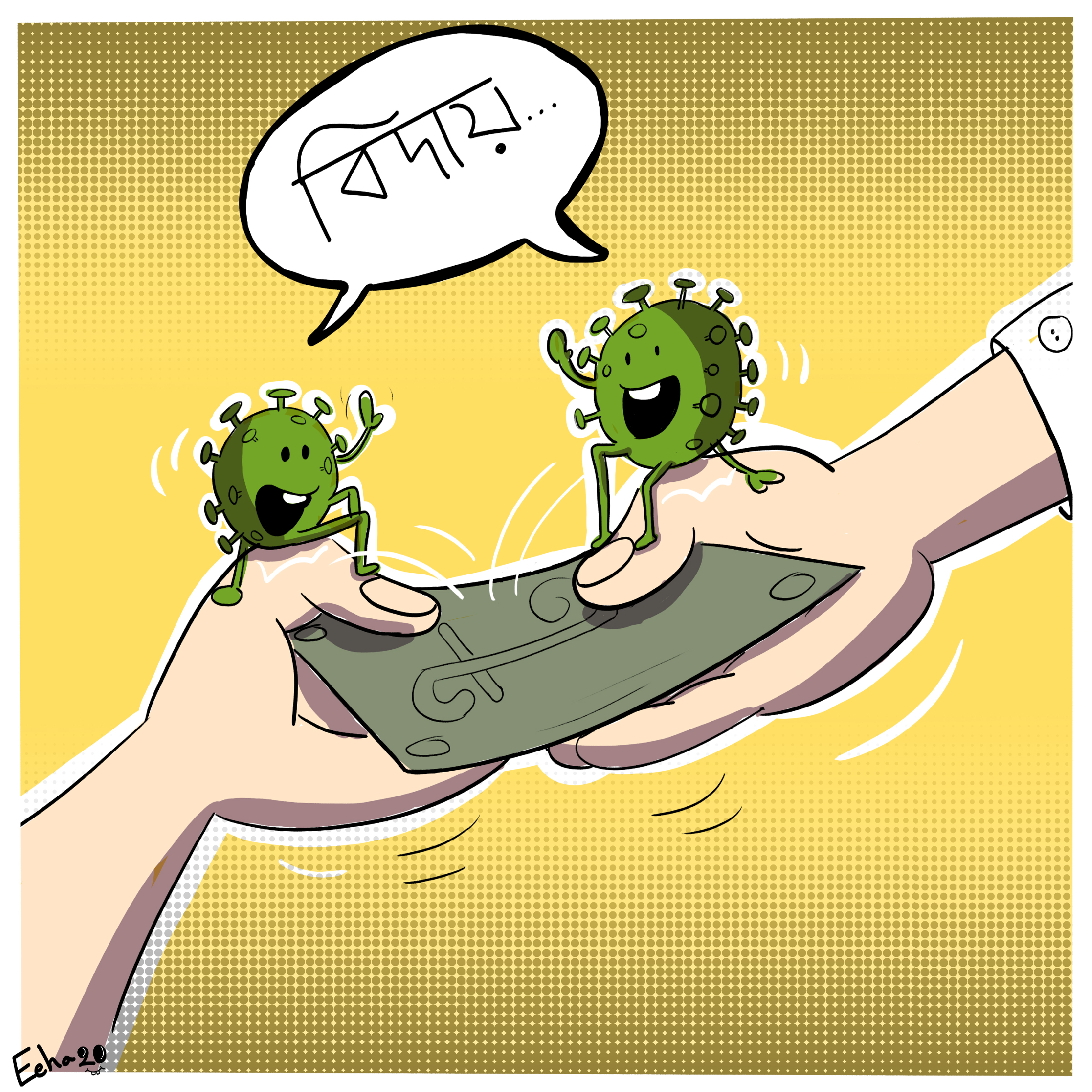 Artist, Visualization & dialogue : Anika Nawar Eeha Concept: Abdullah Al Mamun